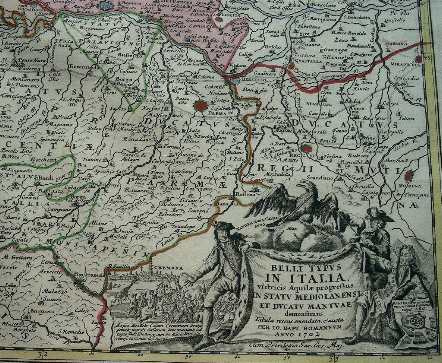 Jo. Baptistae Homanni Norimbergae Map of Milano from 1702